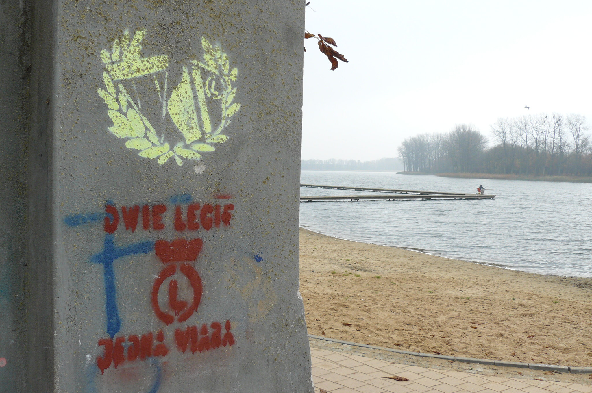 Chełmża, lake. Graffiti - Legia Chełmża Footbal Club.